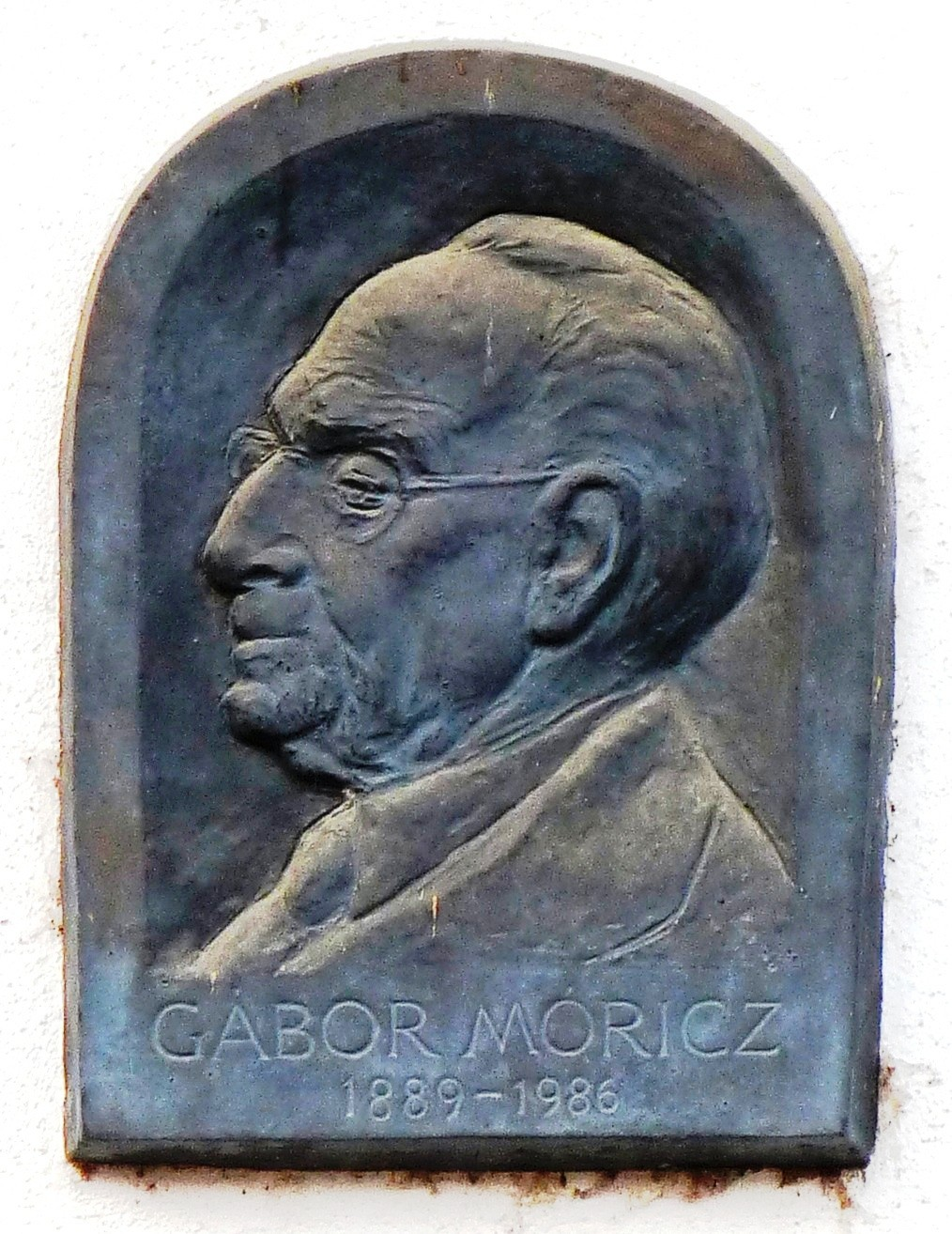 Móricz Gábor (painter) commemorative plaque in Budapest District VIII, Százados Street No 2.